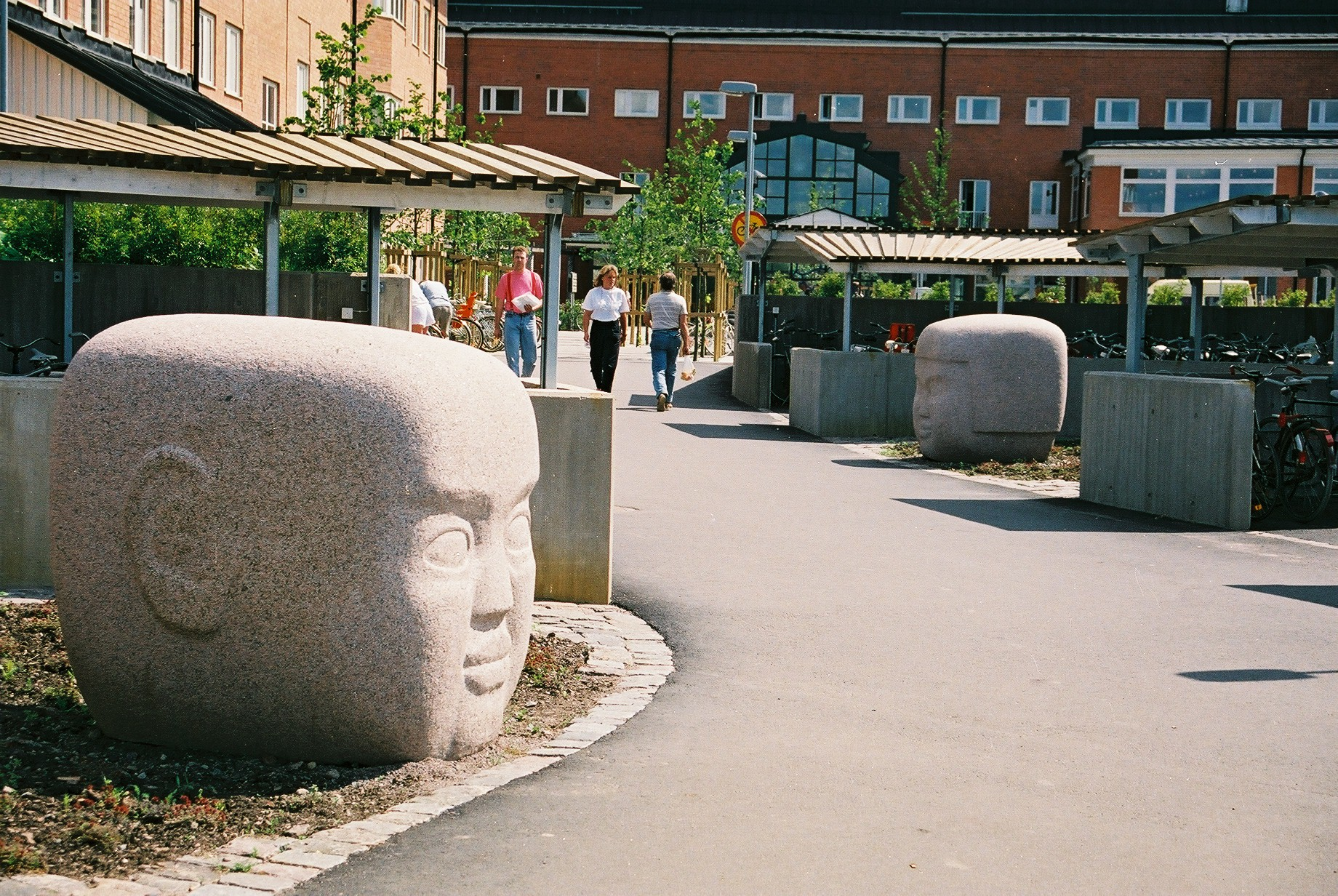 Alf Olsson, Ask and Embla, granite, Vrinnevisjukhuset